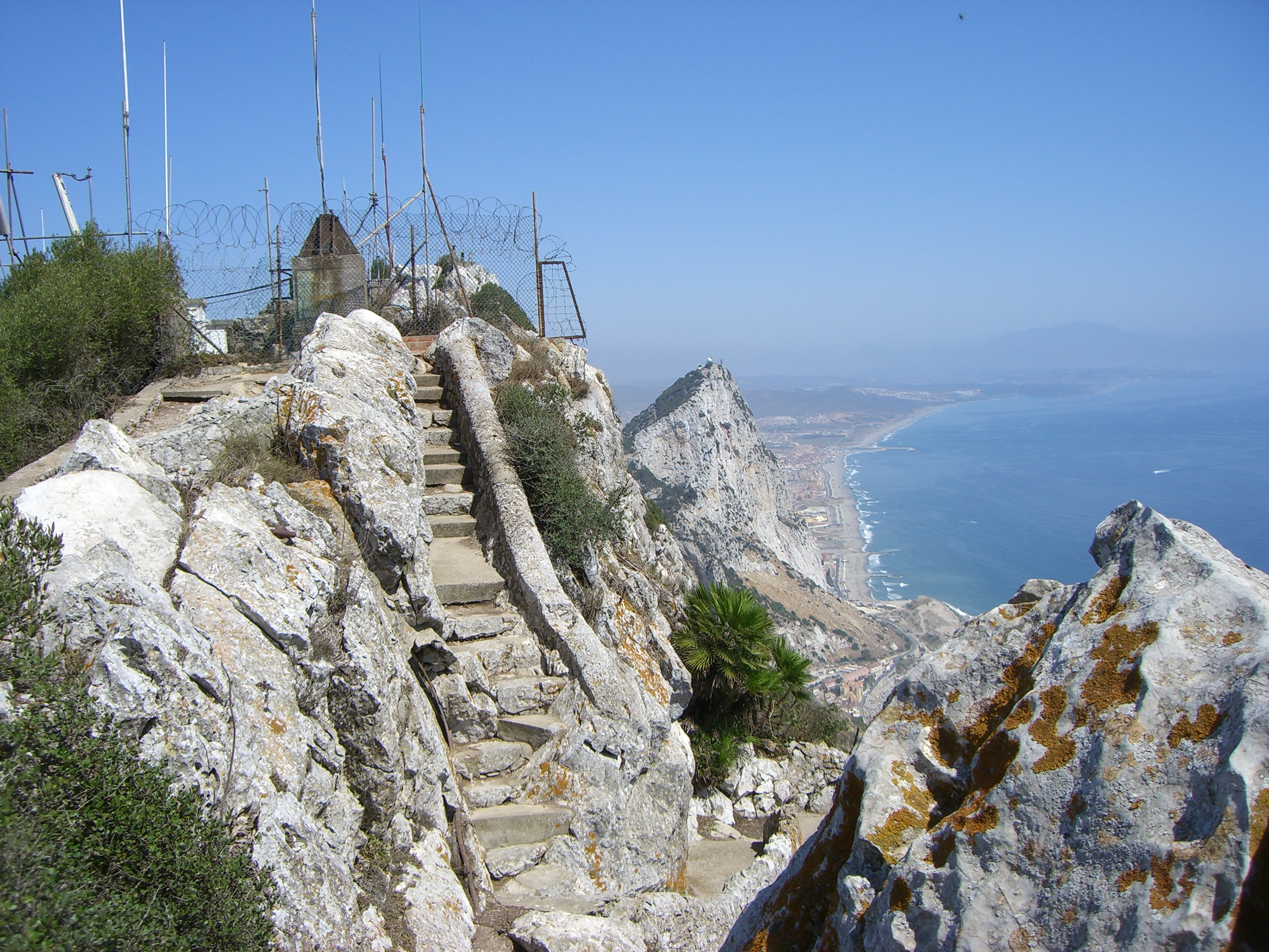 Top of Mediterranean Steps near the summit of the Rock of Gibraltar.